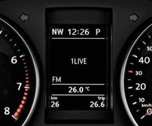 VW Golf VI Mittendisplay